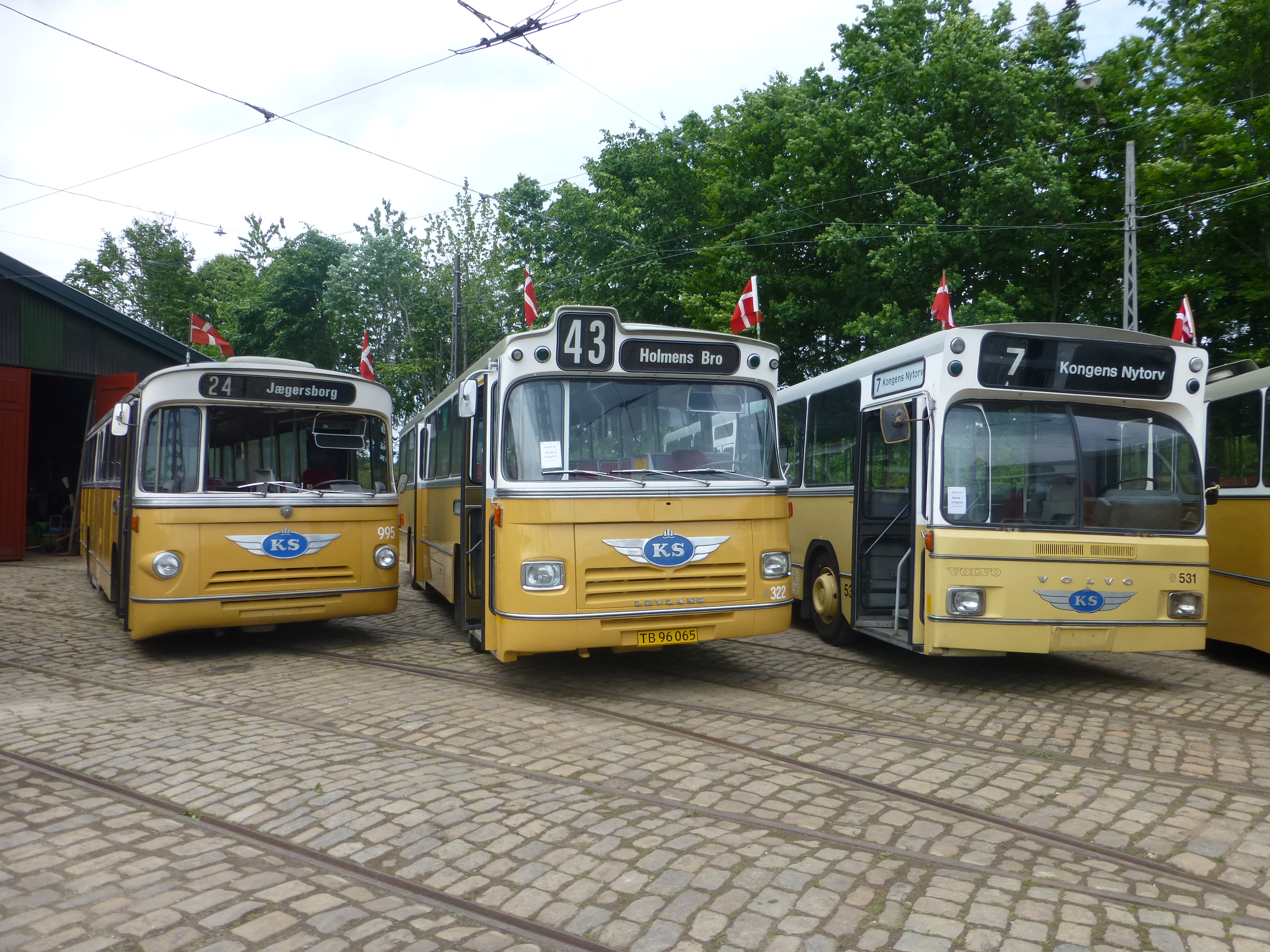 Old buses from Copenhagen KS 995, KS 322 and KS 531 at the celebrating of 100 years of motor buses in Copenhagen on Sporvejsmuseet Skjoldenæsholm in Denmark.